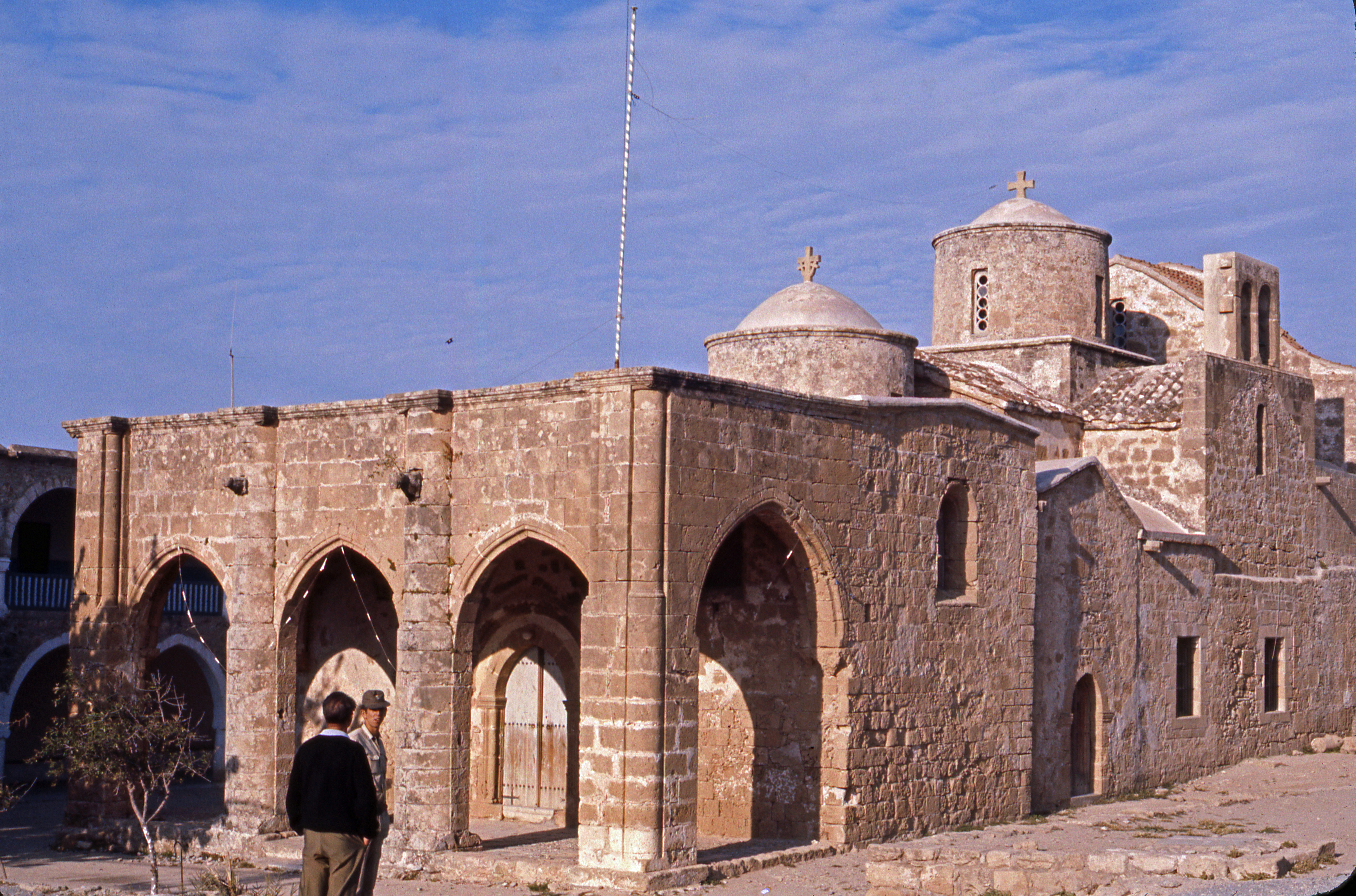 The church in the Acheiropoietos Monastery from the south west, as the monument stood in 1973